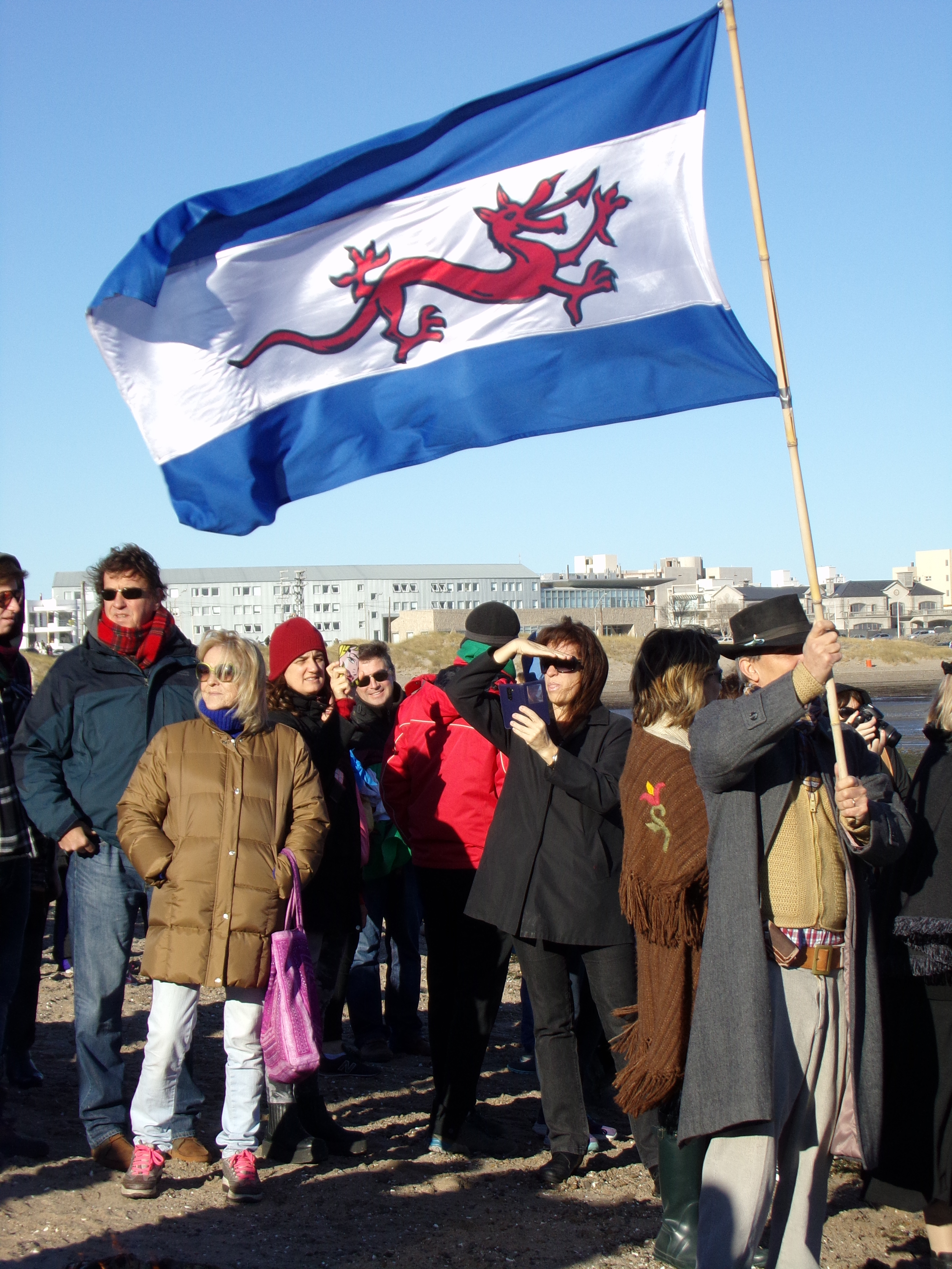 Recreation of the landing of Mimosa sailboat in Punta Cuevas, Port Madryn.